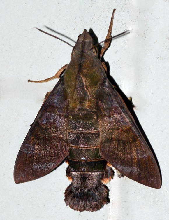 Malaysia, Fraser's Hill, March 2009